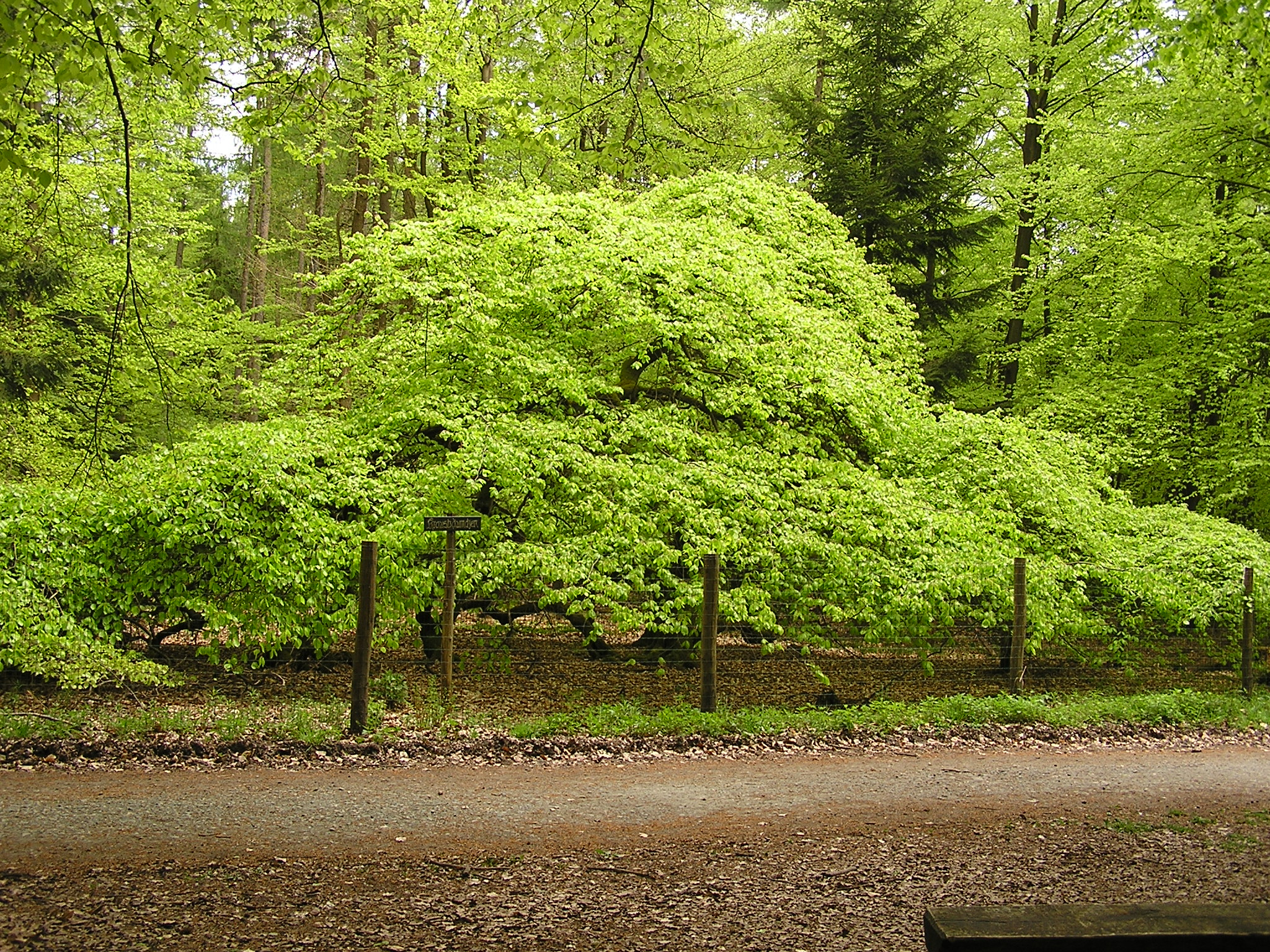 The Krausbäumchen (curly sapling) is a Dwarf Beech marked as a natural monument.